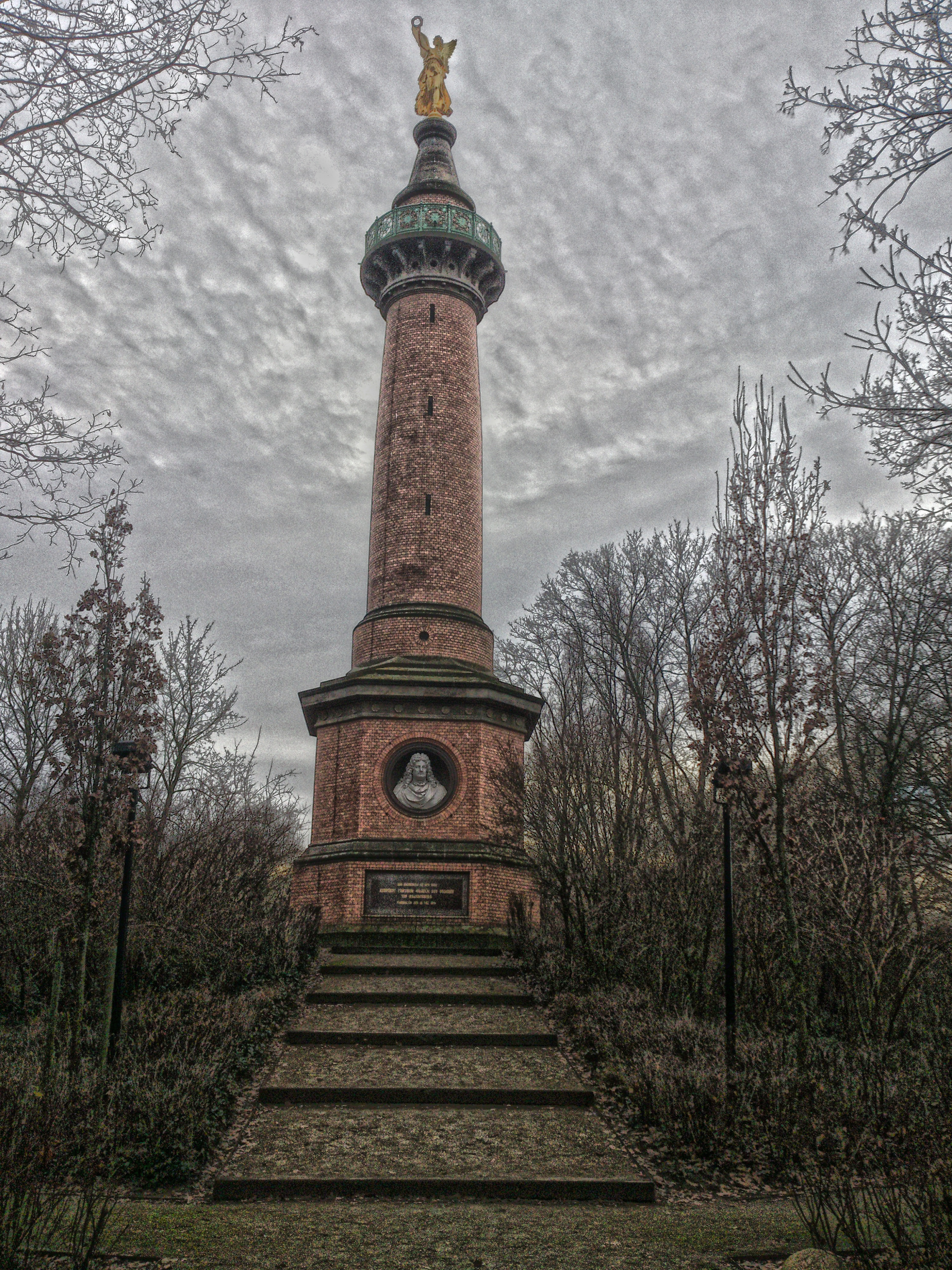 Memorial of the Battle of Fehrbellin, Hakenberg, Germany Author: Ricardo Michalski, Markee (Nauen) Date: 2012-11-10